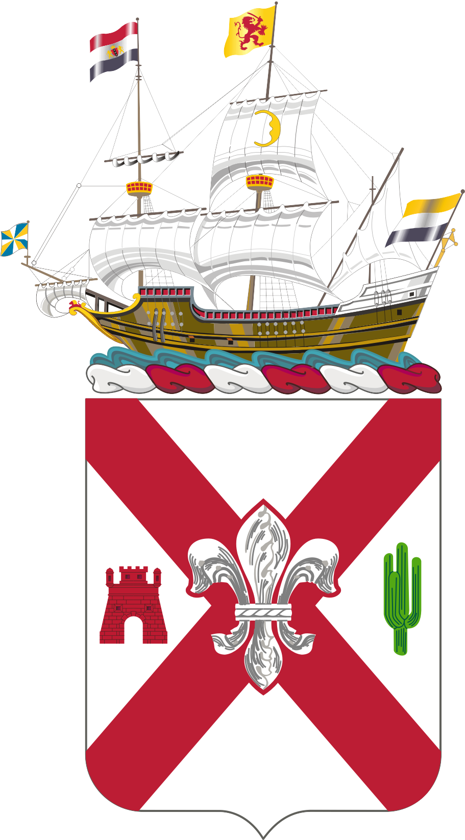 Description/Blazon Shield Argent, a saltire Gules, in dexter fess a castle with corner towers Murrey and in sinister fess a giant cactus Vert, overall a fleur-de-lis of the first (Argent) on the field fimbriated of the second (Gules). Crest That for the regiments and separate battalions of the New York Army National Guard: On a wreath of the colors Argent and Gules, the full rigged ship "Half Moon" all Proper. Motto SEMPER FIDELIS (Ever Faithful). Symbolism Shield The shield is white, the old color for Infantry. The saltire cross is for service during the Civil War. The castle is taken from the Spanish campaign medal and represents service during the War with Spain. The cactus stands for Mexican Border duty and the fleur-de-lis for service in France during World War I. The motto translates to "Ever Faithful" and has been used by the Regiment since 1854. Crest The crest is that of the New York Army National Guard. Background The coat of arms was originally approved for the 174th Infantry Regiment on 13 January 1925. It was amended to include the history of the organization on 7 January 1932. It was redesignated for the 174th Armored Infantry Battalion on 29 July 1955. It was redesignated for the 174th Infantry Regiment on 20 March 1962.